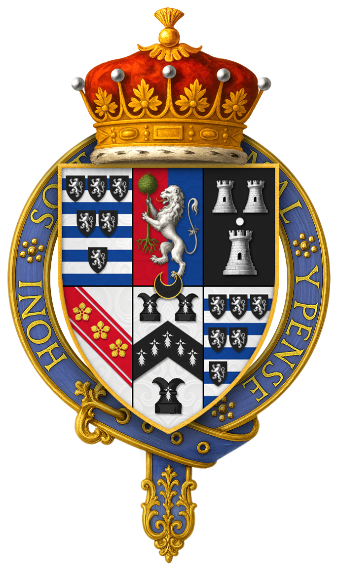 Coat of arms of James Cecil, 3rd Earl of Salisbury, KG. Quarterly of six: 1&4: Cecil 2: A lion rampant holding a tree eradicated (Wynstone) 3: A roundel between three towers triple towered (Caerlion) 4: On a bend three cinquefoils (Heckington/Ekington). ('Monumental Heraldry in Dorset', in An Inventory of the Historical Monuments in Dorset, Volume 5, East (London, 1975), pp. 121-129. [1]). 5: Argent, a chevron between three chess rooks ermine (Walcot, an heiress of Heckington, as can be seen quartered by Heckington on the monument to Richard Cecil (husband of Jane Heckington) in Stamford Church).